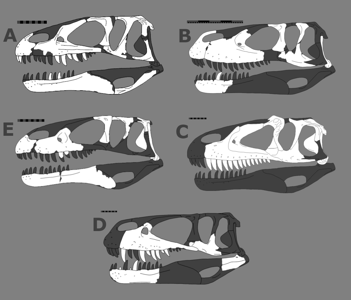 Illustrated diagram of skulls from theropod dinosaurs within the family Megalosauridae. From top left clockwise: Dubreuillosaurus, found in France, dated to 167 million years old. Torvosaurus, found in Colorado ( USA ) and Portugal, dated to 153–148 million years old. Afrovenator, found in Niger, dated to 167–161 million years old. Megalosaurus, found in France and England, dated to 166 million years old. Eustreptospondylus, found in England, dated to 162 million years old. Scale bars are 10cm total except for Torvosaurus (50cm total)